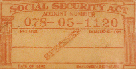 The promotional U.S. Social Security card distributed as an example card in wallets distributed by the F.W. Woolworth Company